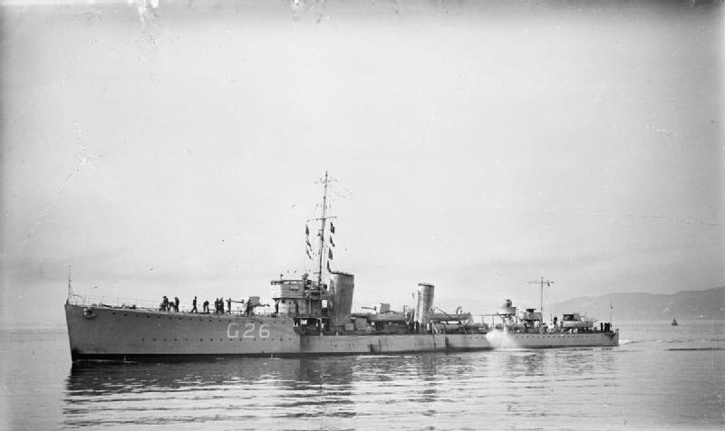 Photograph of British S class destroyer HMS Sepoy.